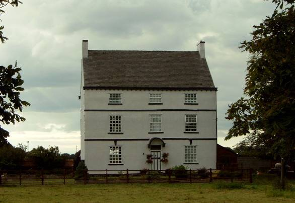 Byrom Hall, Slag Lane Lowton Information on the history of Byrom Hall can he found on the website